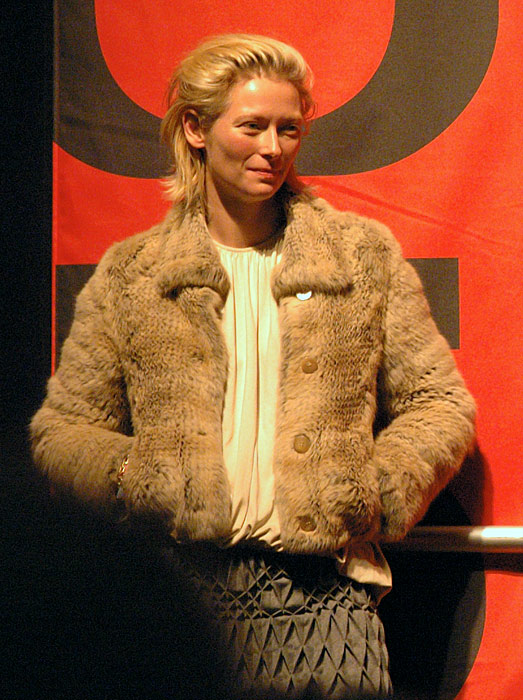 Tilda Swinton